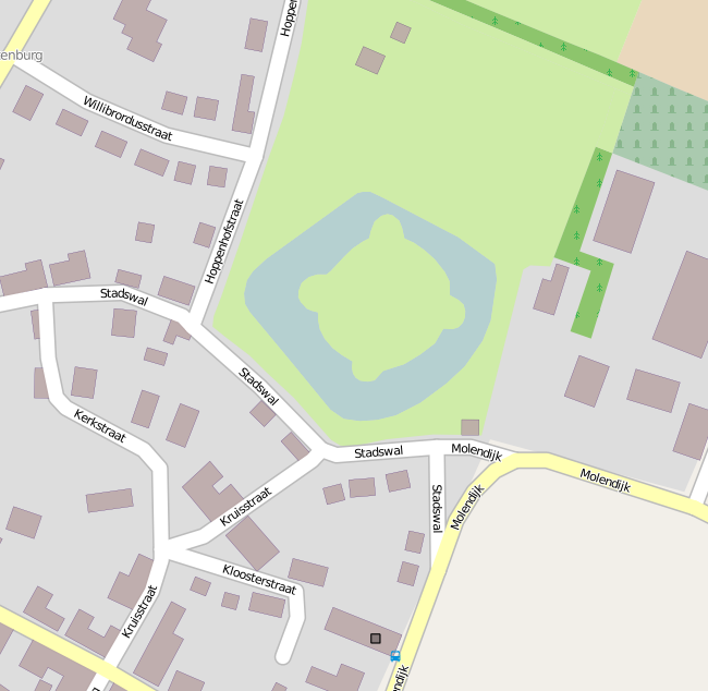 Open Street Map showing the location of Batenburg Castle in relation to the surrounding village.